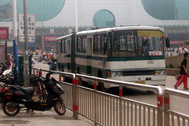 Bengbu Bus No.107 at Bengbu Railway Station